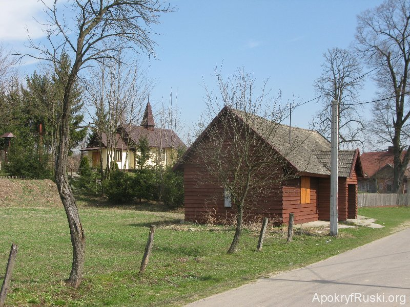 Narodnyj Dim w Zaleskej Wole